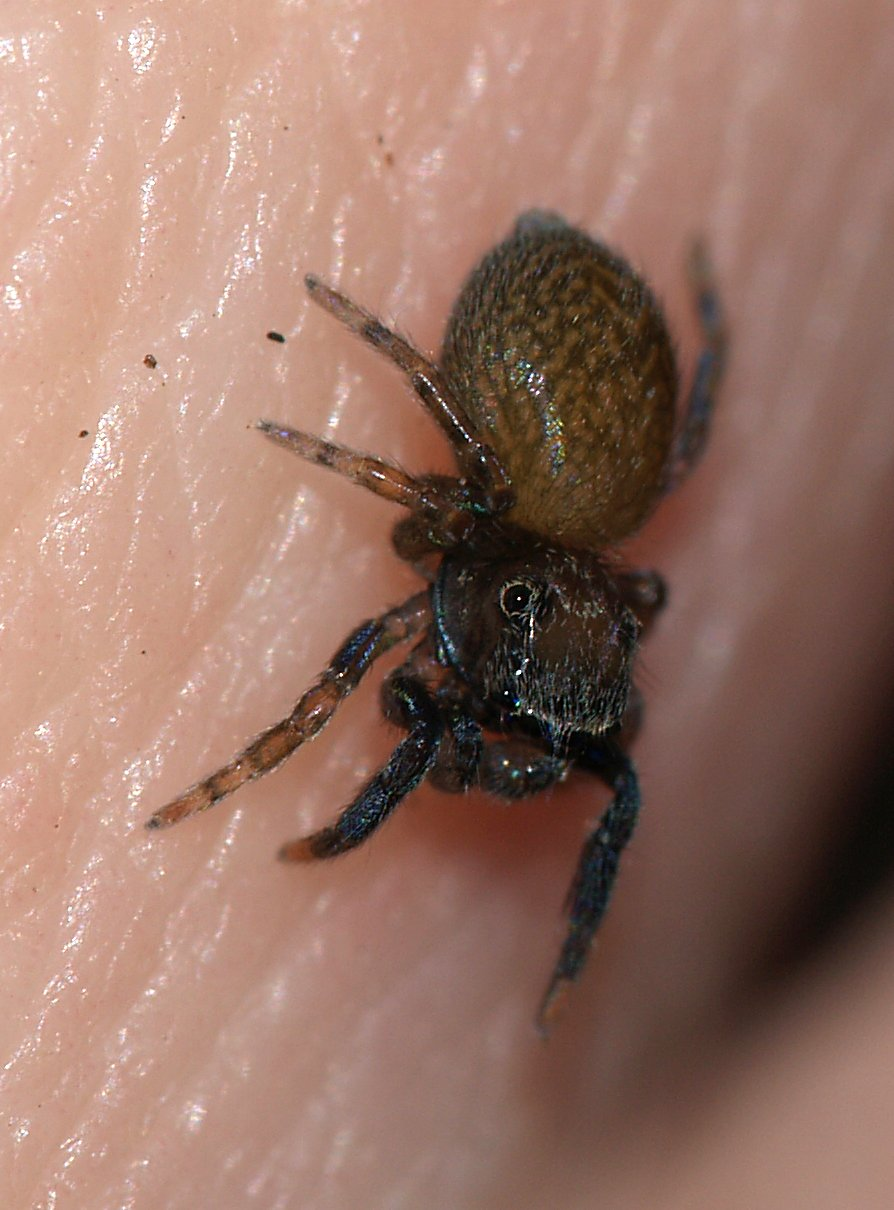 Neon valentulus from Ratingen, Germany. Found inside a moist rotten log.